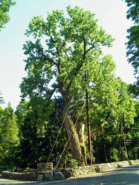 Photographed by Daniel Case 2006-08-05